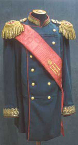 Russian generals uniform - 15th firing regiment - of King of Montenegro Nikola I Petrović.